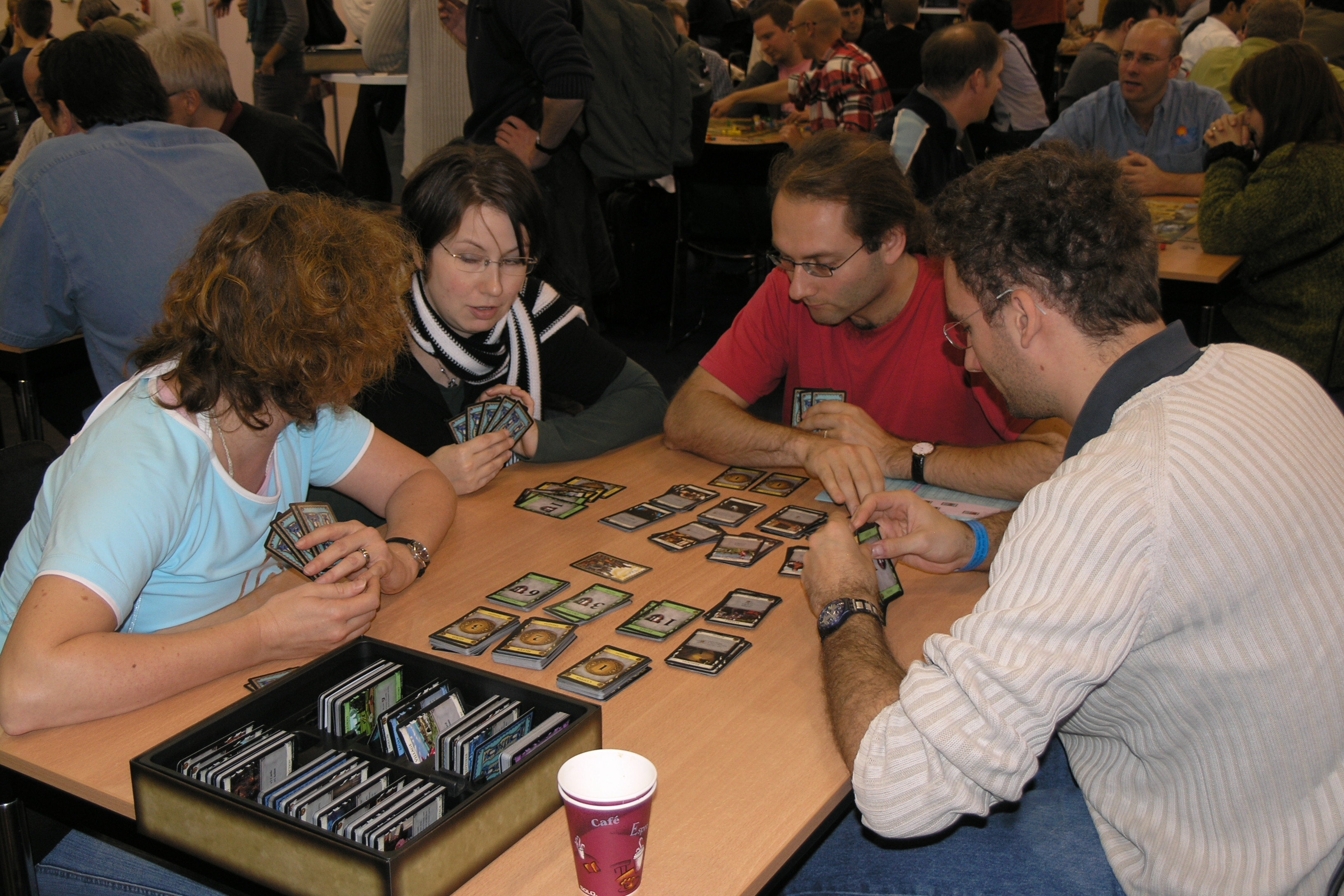 Personality rights warning Although this work is freely licensed or in the public domain, the person(s) shown may have rights that legally restrict certain re-uses unless those depicted consent to such uses. In these cases, a model release or other evidence of consent could protect you from infringement claims.